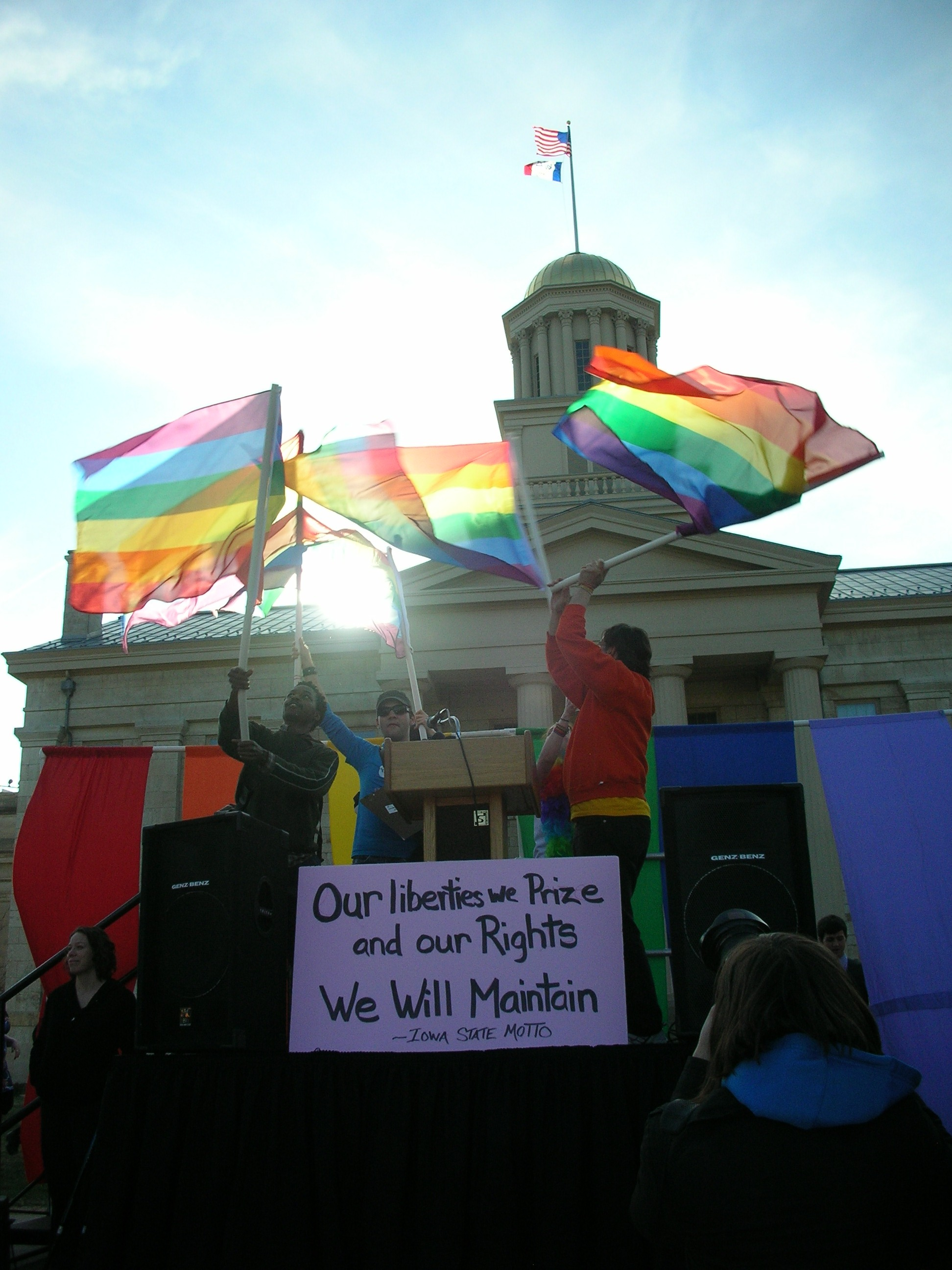 A rally held in Iowa City following the Supreme Court's decision to legalize same-sex marriage in Iowa. The purple placecard in the center shows Iowa's state motto.